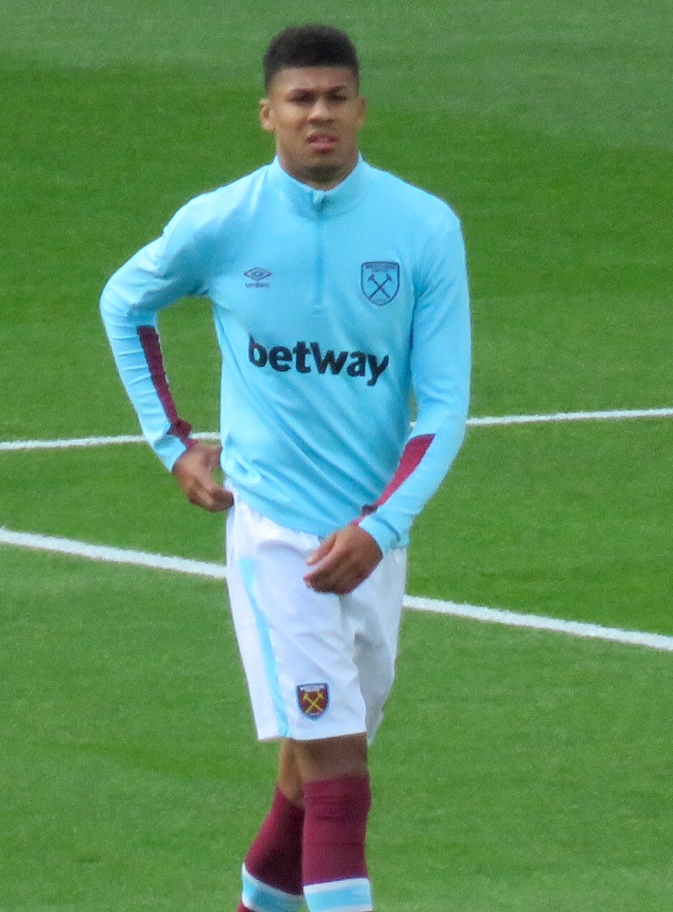 West Ham United player, Ashley Fletcher warming up before their Premier League game at the London Stadium against Southampton.